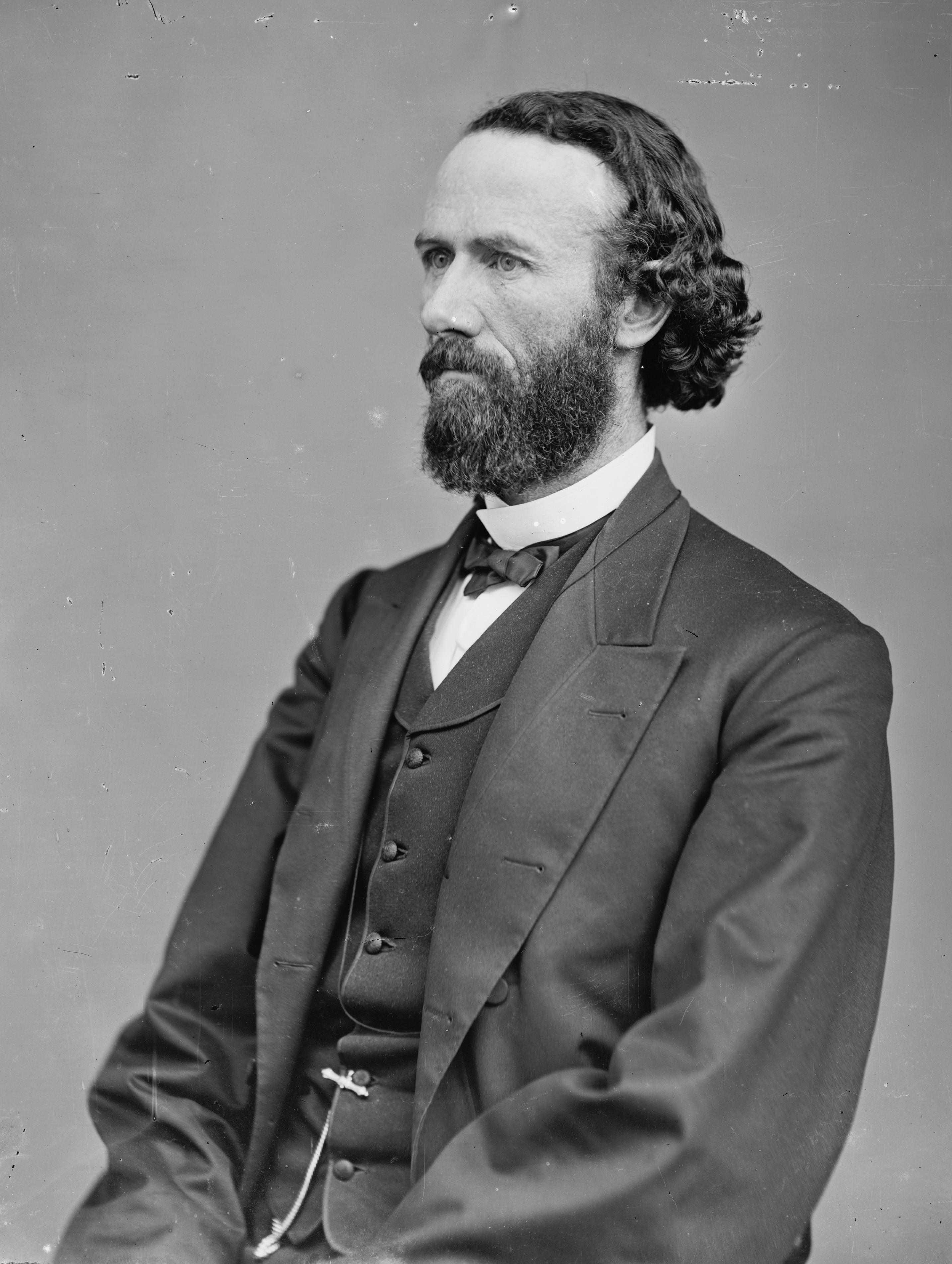 John B. Henderson. Library of Congress description: "Henderson, Hon. John Brooks of Mo. Delegate to Democratic National Convention at Charleston S.C. in 1861. (Henderson Castle) Brig. Gen in State Military in 1861"